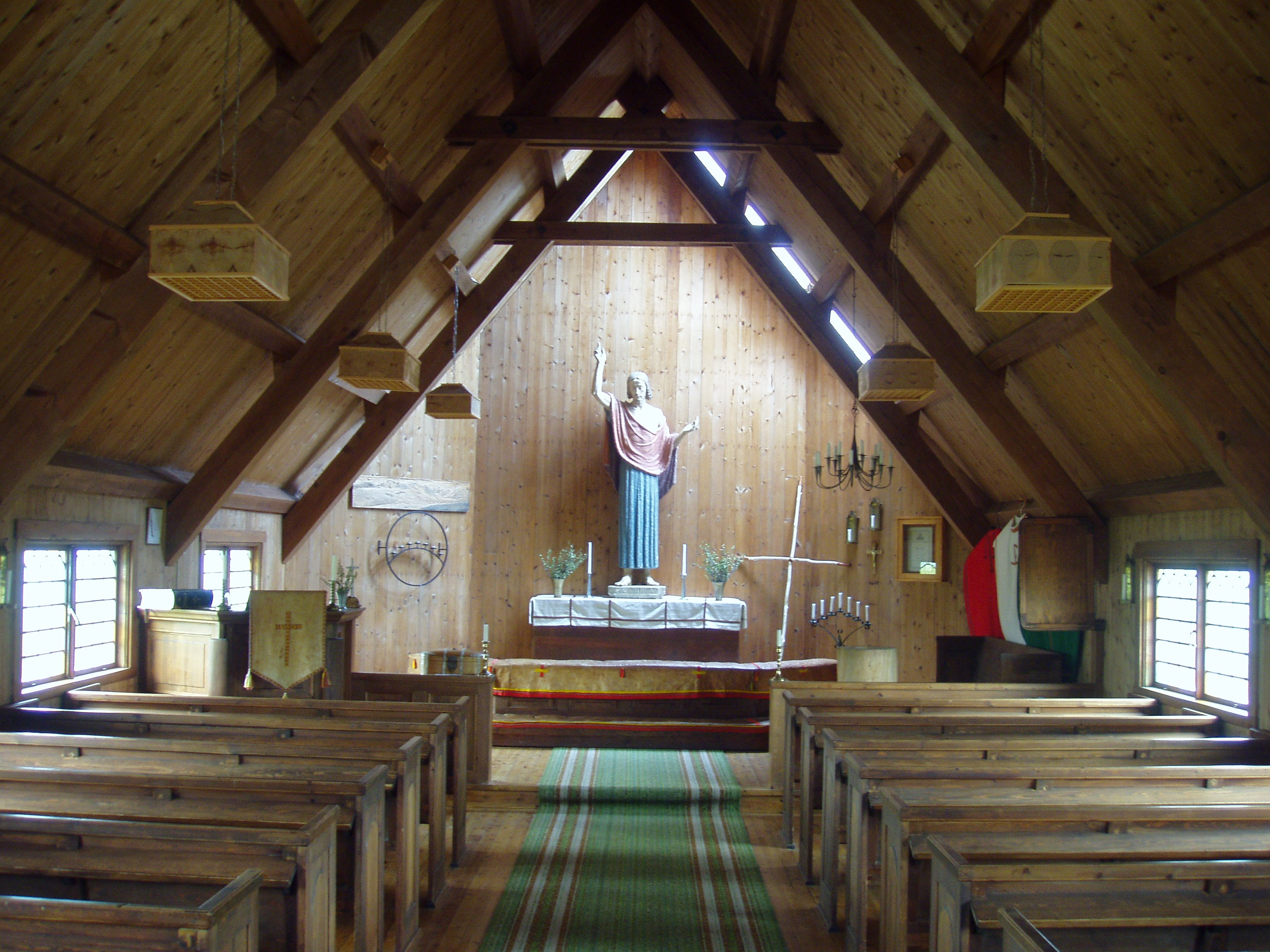 Nikkaluokta kapell. Interior. Gällivare kommun, Lappland, Norrbotten county, Sweden. The picture was taken 24th of August 2003 by Håkan Svensson (Xauxa).